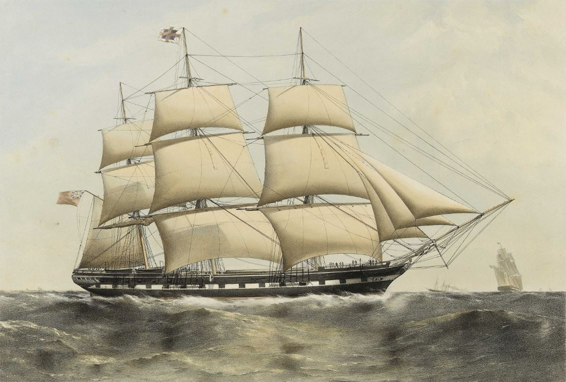 Clipper Ship 'Newcastle' 1275 Tons, R.D. Crawford Commander Print entitled 'Clipper Ship Newcastle 1275 Tons, R.D. Crawford Commander'. The ship is flying the Green Blackwall line House flag at the main. She was built by W. Pile junior at Sunderland in 1857 for Richard Green's London to India service. There is a bill of sale relating to the ship in NMM MS GRN 14. Clipper Ship 'Newcastle' 1275 Tons, R.D. Crawford Commander